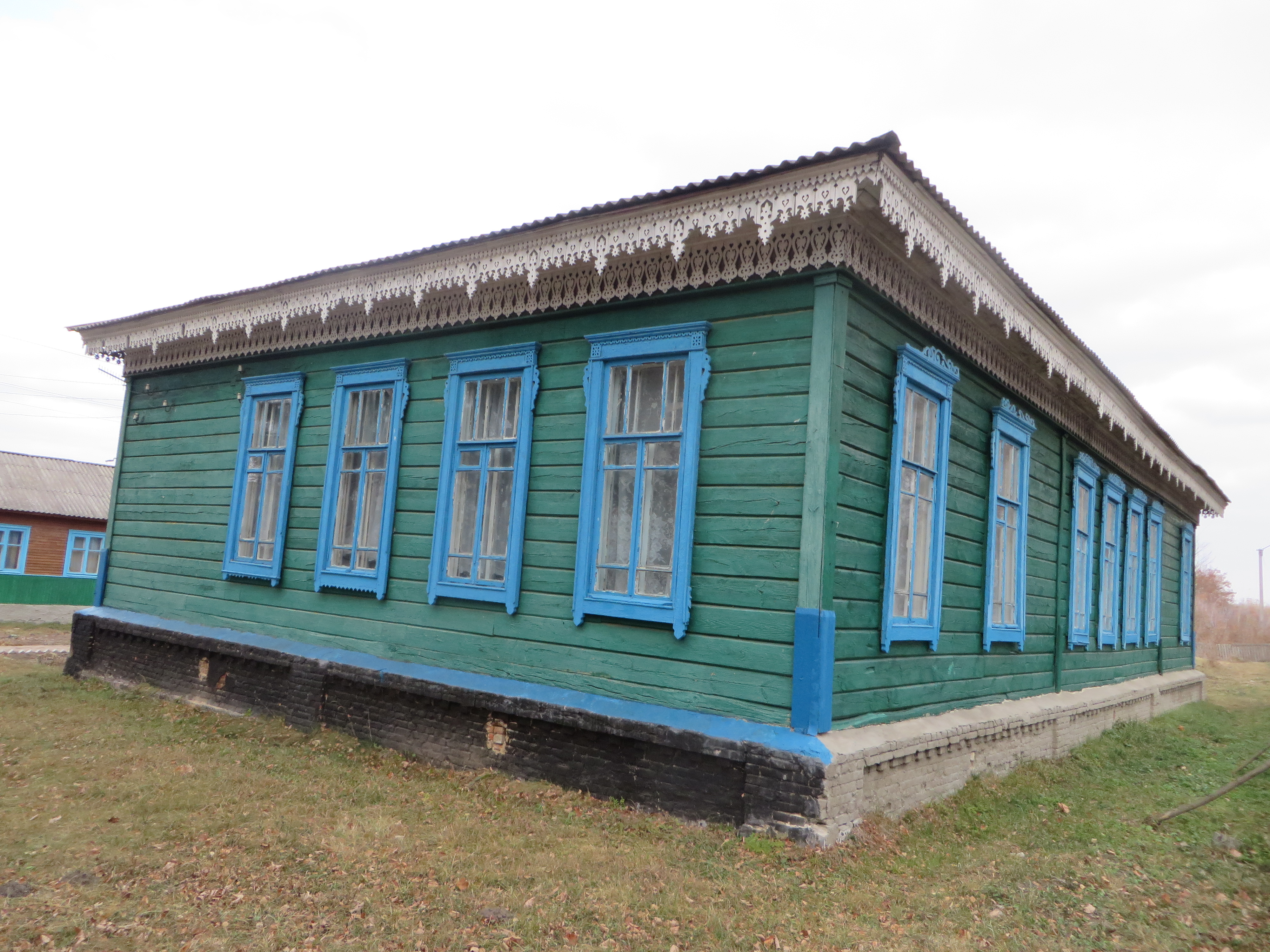 school in v. Voloskivtsi, Mena Raion, Chernihiv Oblast, Ukraine